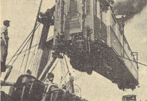 Disembark of a lot of carriages, built by the italian Officine Ferroviarie Meridionali, at the Leixões Seaport. This operation took place on September 1931. The carriages were ordered by the Companhia dos Caminhos de Ferro do Norte de Portugal (Portuguese Northern Railways Company), who explored the narrow gauge railways from Oporto to Póvoa and Famalicão, Matosinhos, and Guimarães. This photograph was originally published in the Gazeta dos Caminhos de Ferro No. 1094, of the 16th July 1933, and scanned by the Hemeroteca Municipal de Lisboa.